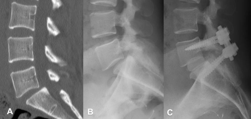 Original caption: 52 year old male with a degenerative spondylolisthesis at L5 - S1. (A) CT sagittal view of a low grade slip. (B) Lateral radiograph pre-operative intervention. -(C) Surgically treated with L5 - S1 decompression, instrumented fusion and placement of an interbody graft between L5 and S1.